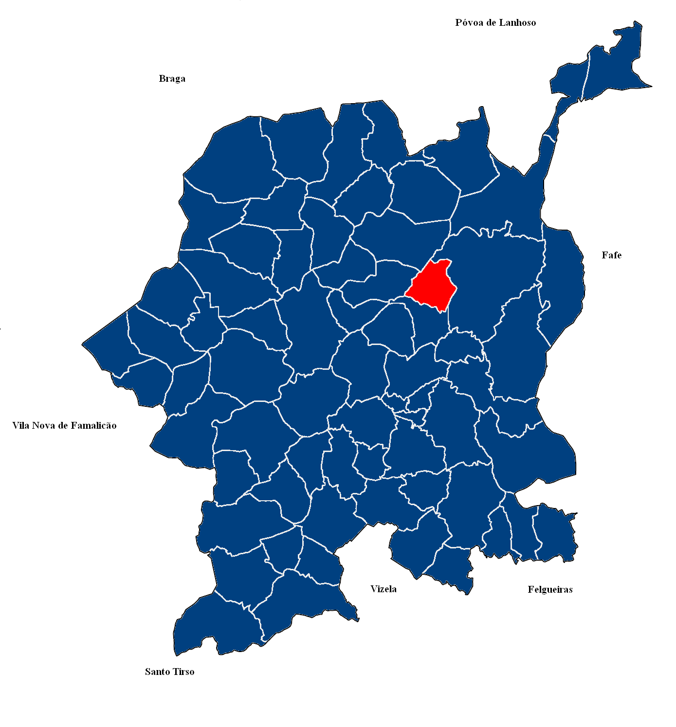 Map of Gominhões parish, Guimarães Municipality, Portugal